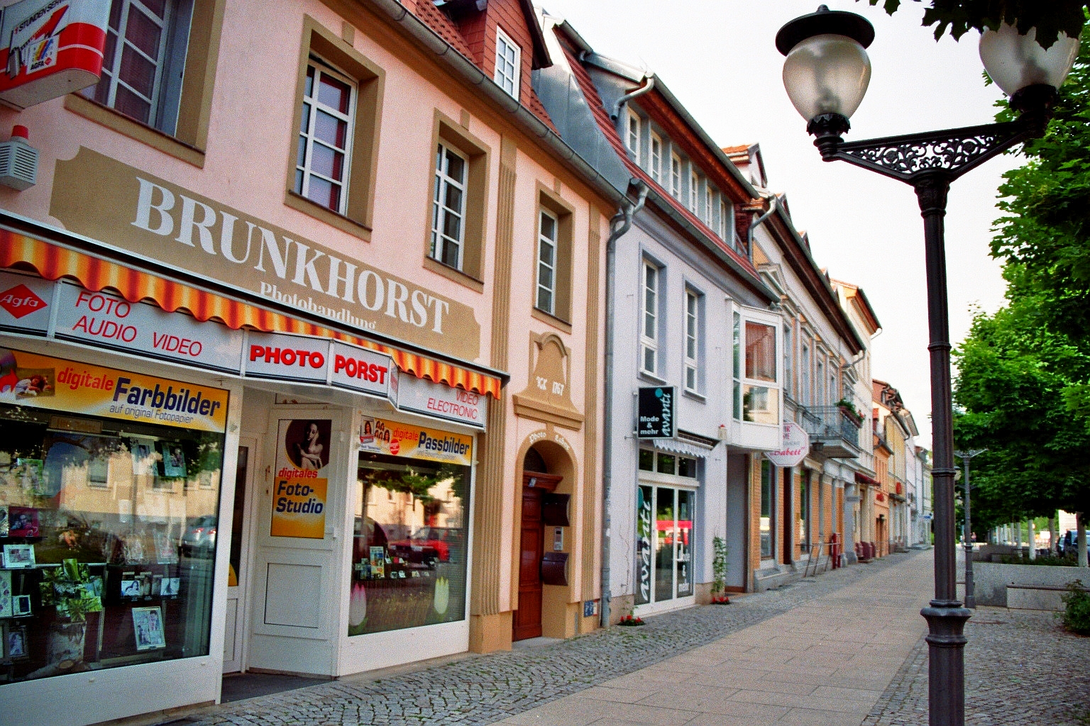 Boulevard Breite Straße in Lübben, Landkreis Dahme-Spreewald, Brandenburg, Germany.